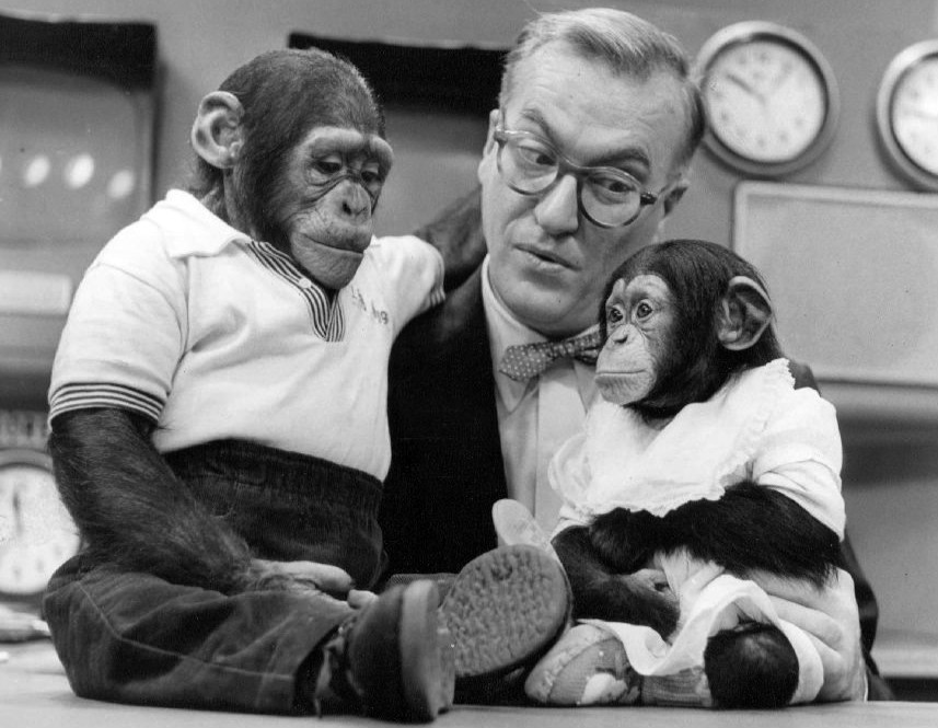 Publicity photo of Dave Garroway, J. Fred Muggs and his companion, Phoebe B. Beebe, on the Today television program.